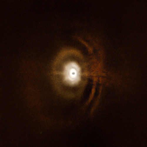 Using the ESO's SPHERE instrument at the Very Large Telescope, a team of astronomer observed the planetary disc surrounding the star HD 97048 in the constellation of Chameleon, about 500 light-years from Earth. The juvenile disc is formed into concentric rings. This symmetry is in contrast to most protoplanetary systems which contain asymmetrical spiral arms, voids and vortexes. The displayed image is a composite derived from two independent observations that targeted the inner and outer regions of this disc. The central part of the image appears dark because SPHERE blocks out the light from the brilliant central star to reveal the much fainter structures surrounding it.